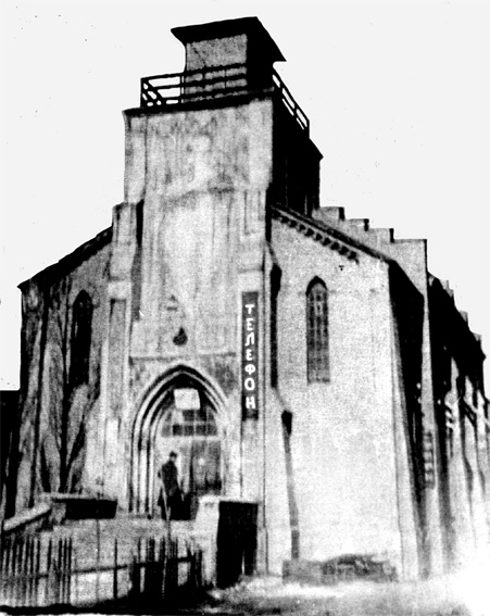 Catholic church in Kadiyivka (Stakhanov) (Ukraine)